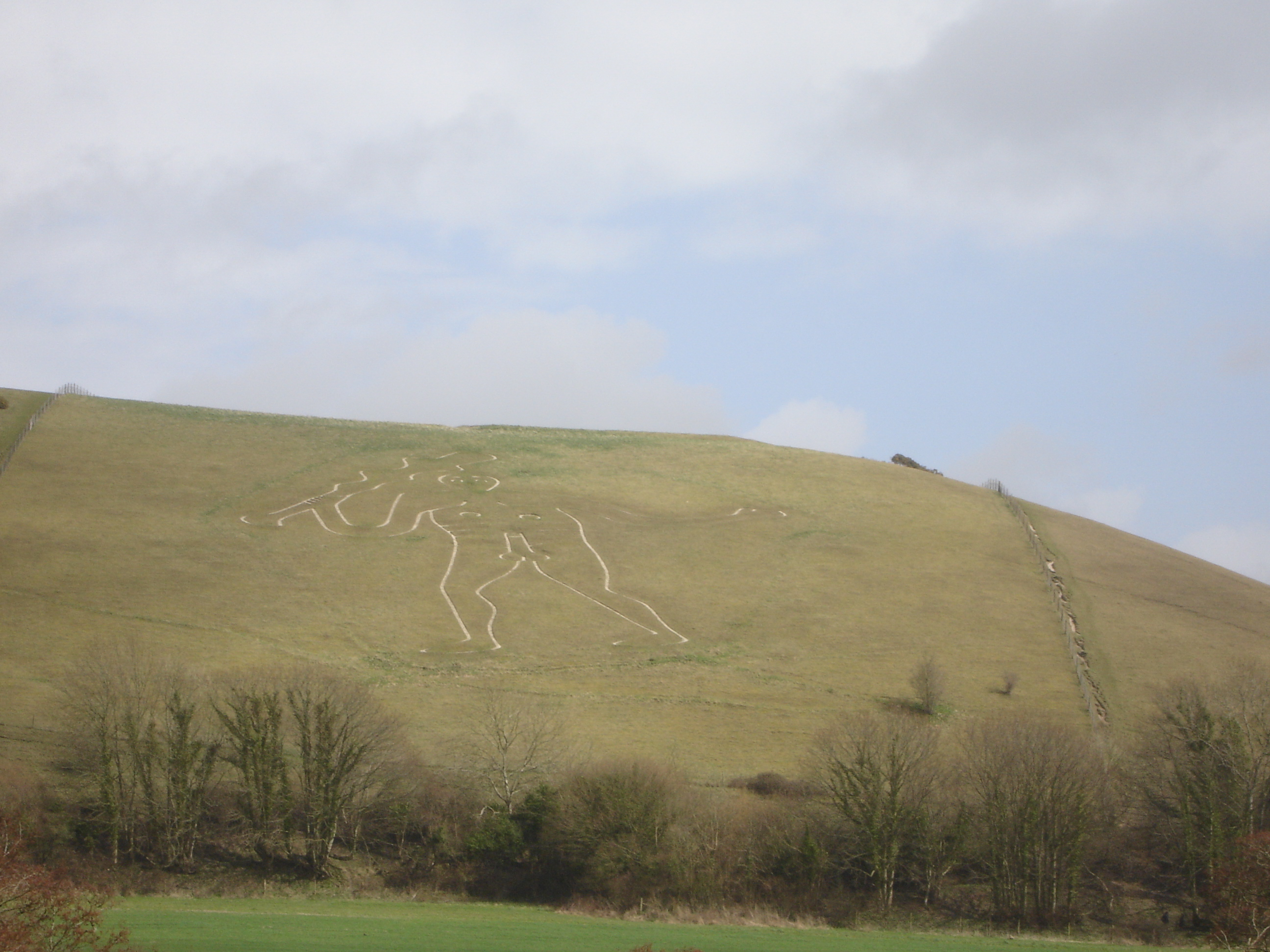 Own Personal Photography, taken 2006. transfer from Upload date: 13:24, 27 September 2006 Author: LordHarris